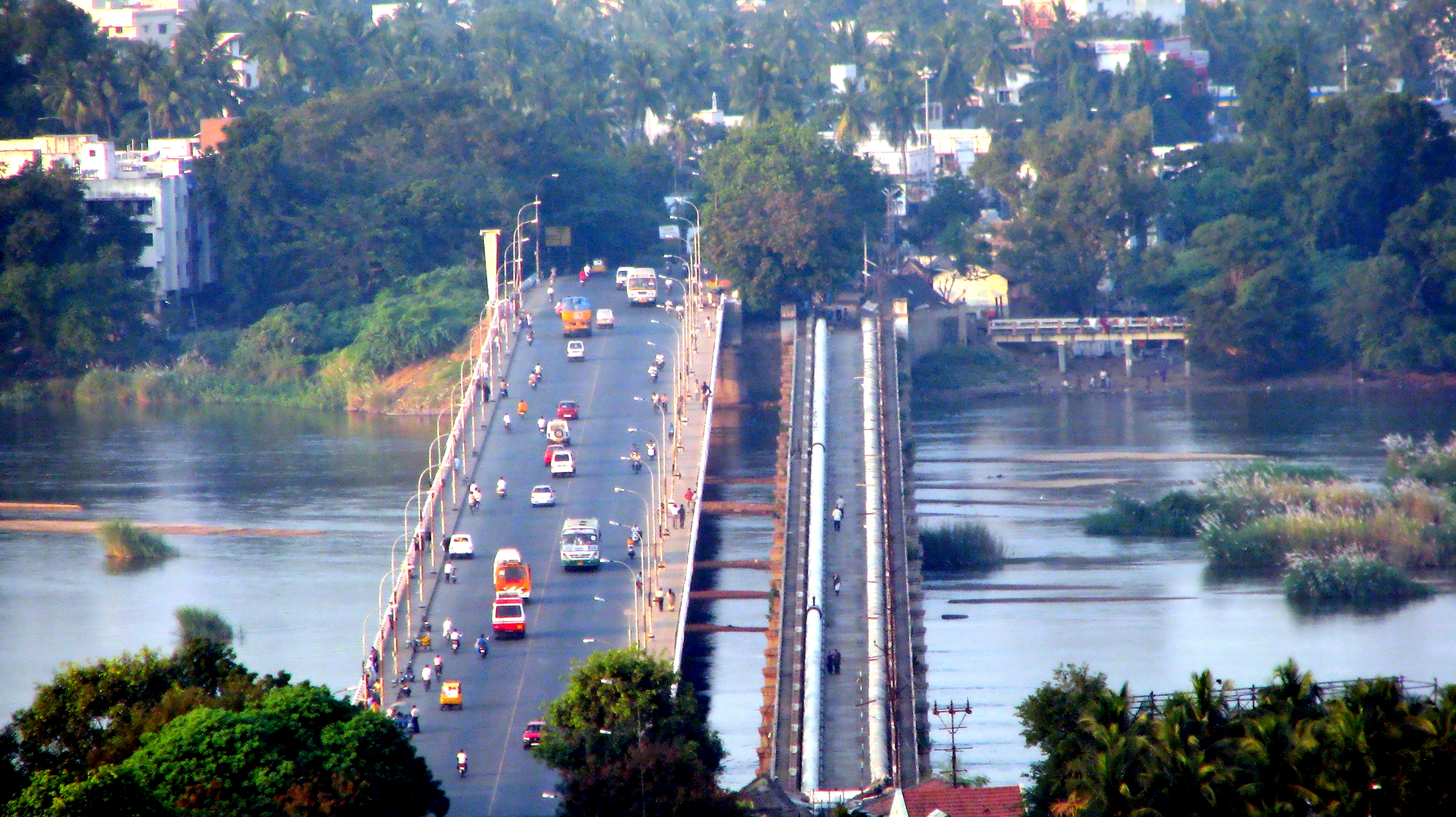 Kaveri Bridge between Thiruchirapalli and Srirangam